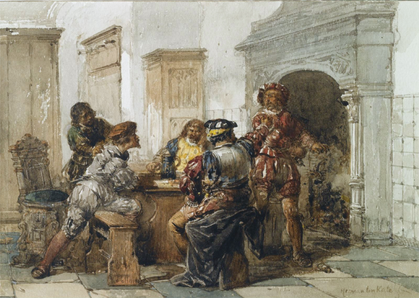 La Dispute 16.7 x 25.1 cm. signed l.r., titled on the reverse watercolour on paper